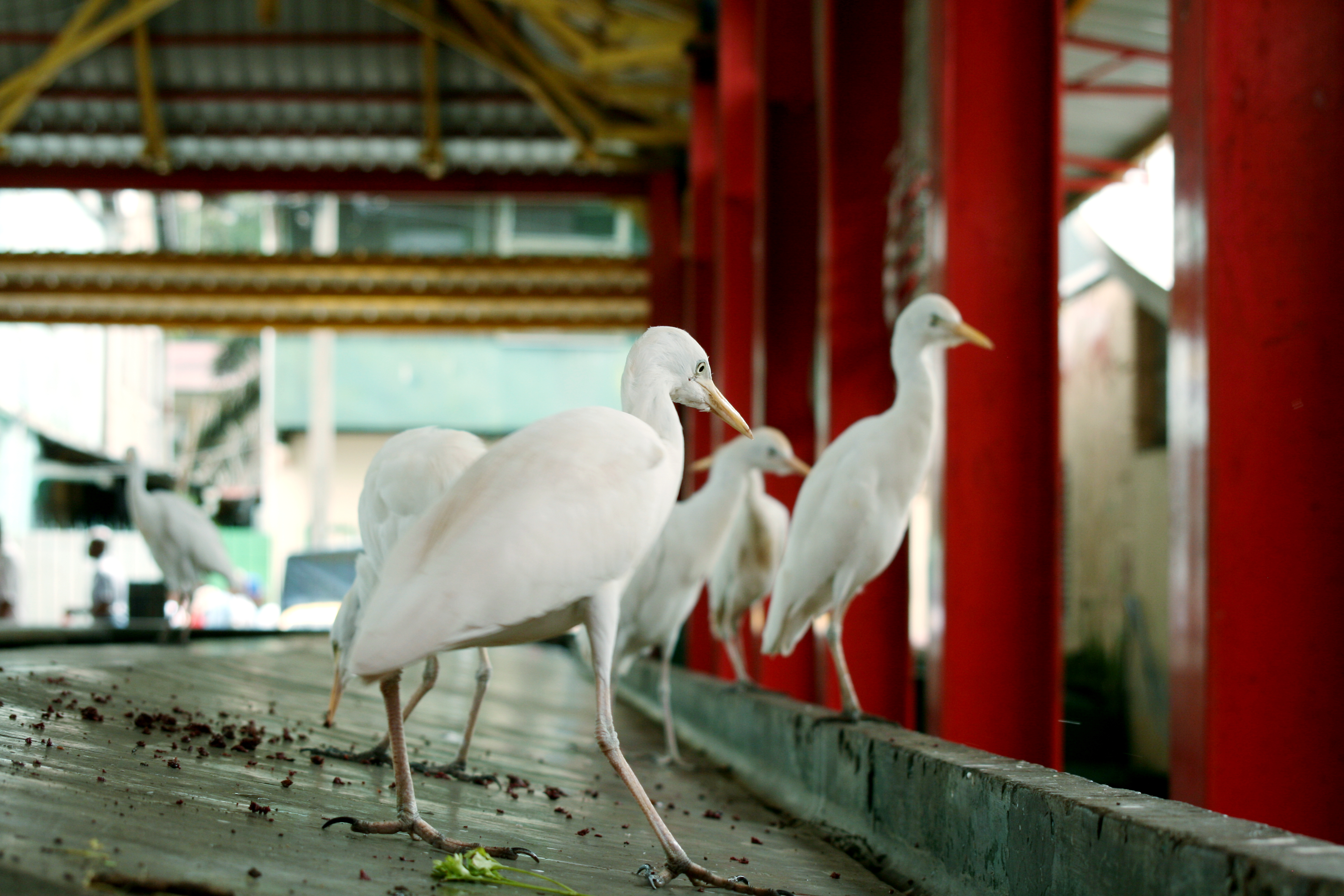 Bubulcus ibis ("Cattle Egret") in the market hall in Victoria, Seychelles